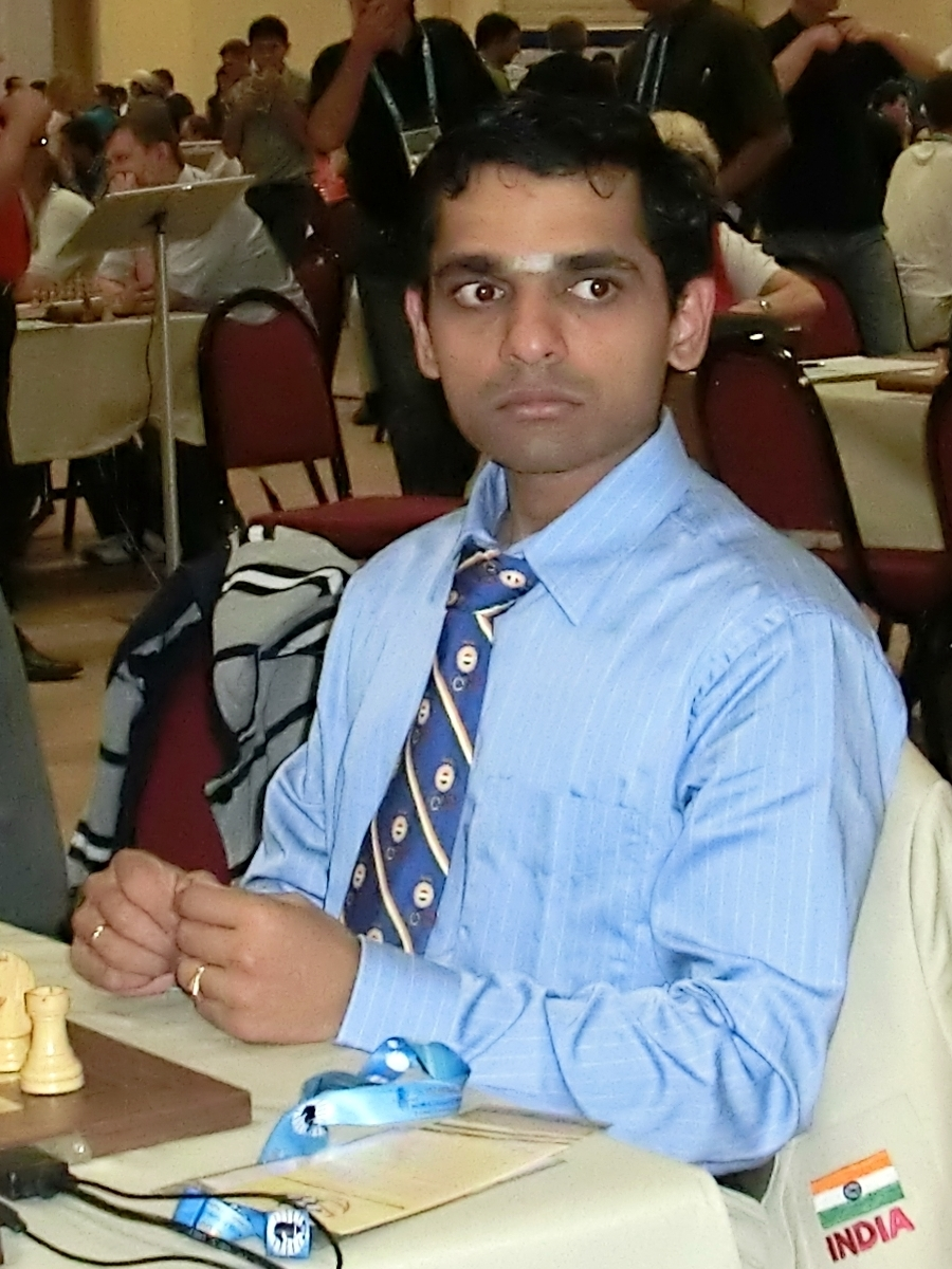 Krishnan Sasikiran, chess grandmaster from Indiaಕನ್ನಡ: ಕೃಷ್ಣನ್ ಸಸಿಕಿರಣ